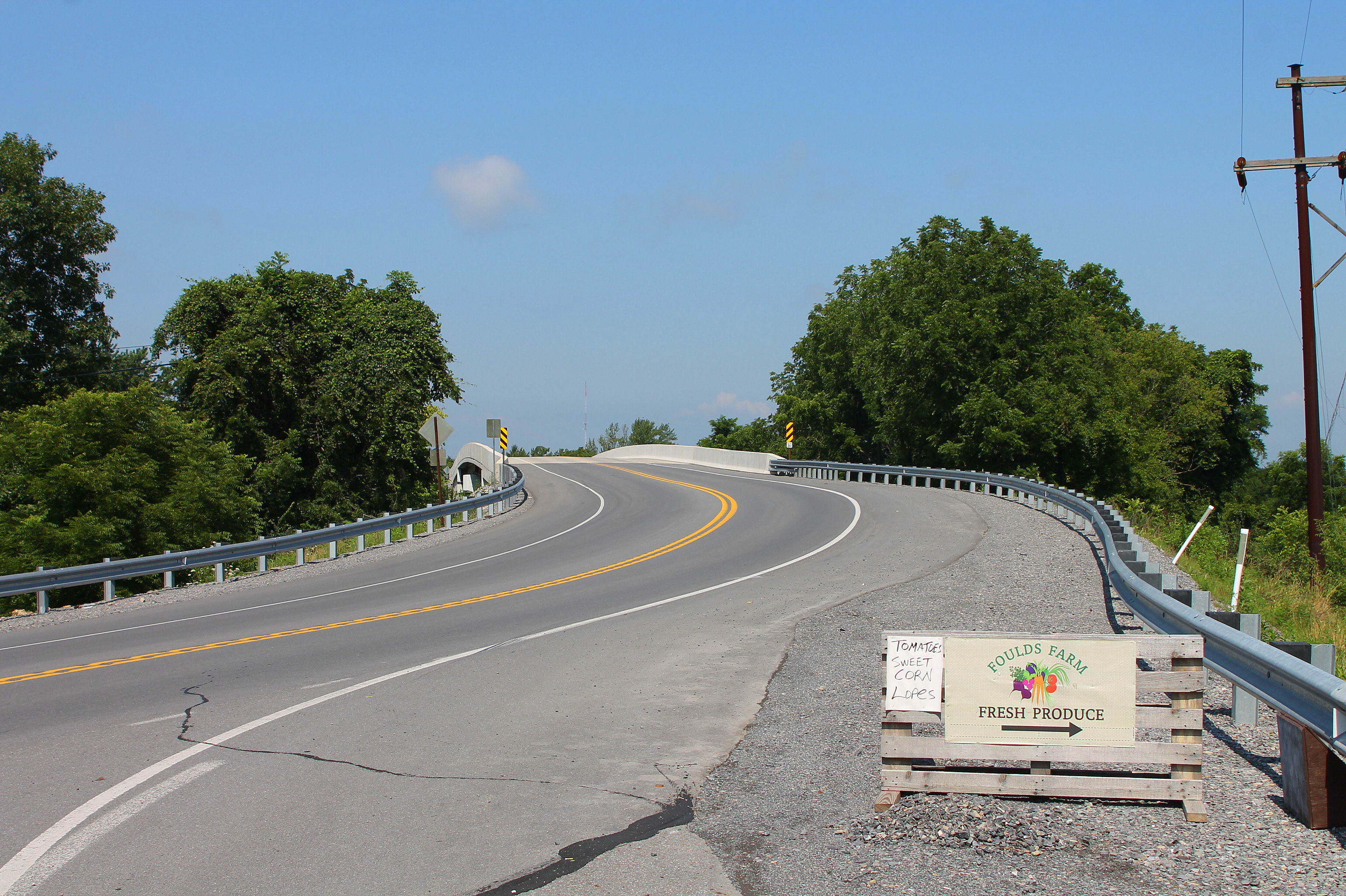 Pennsylvania Route 405 north in West Chillisquaque Township, Northumberland County